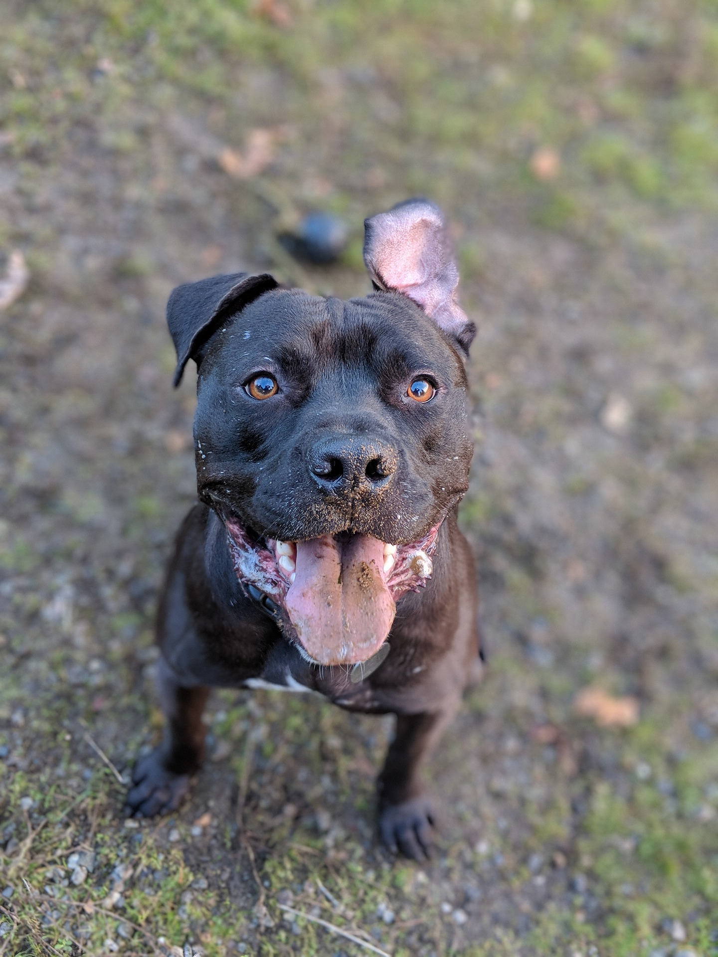 Black black nose American Pit Bull Terrier dog